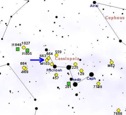 Map of NGC 663